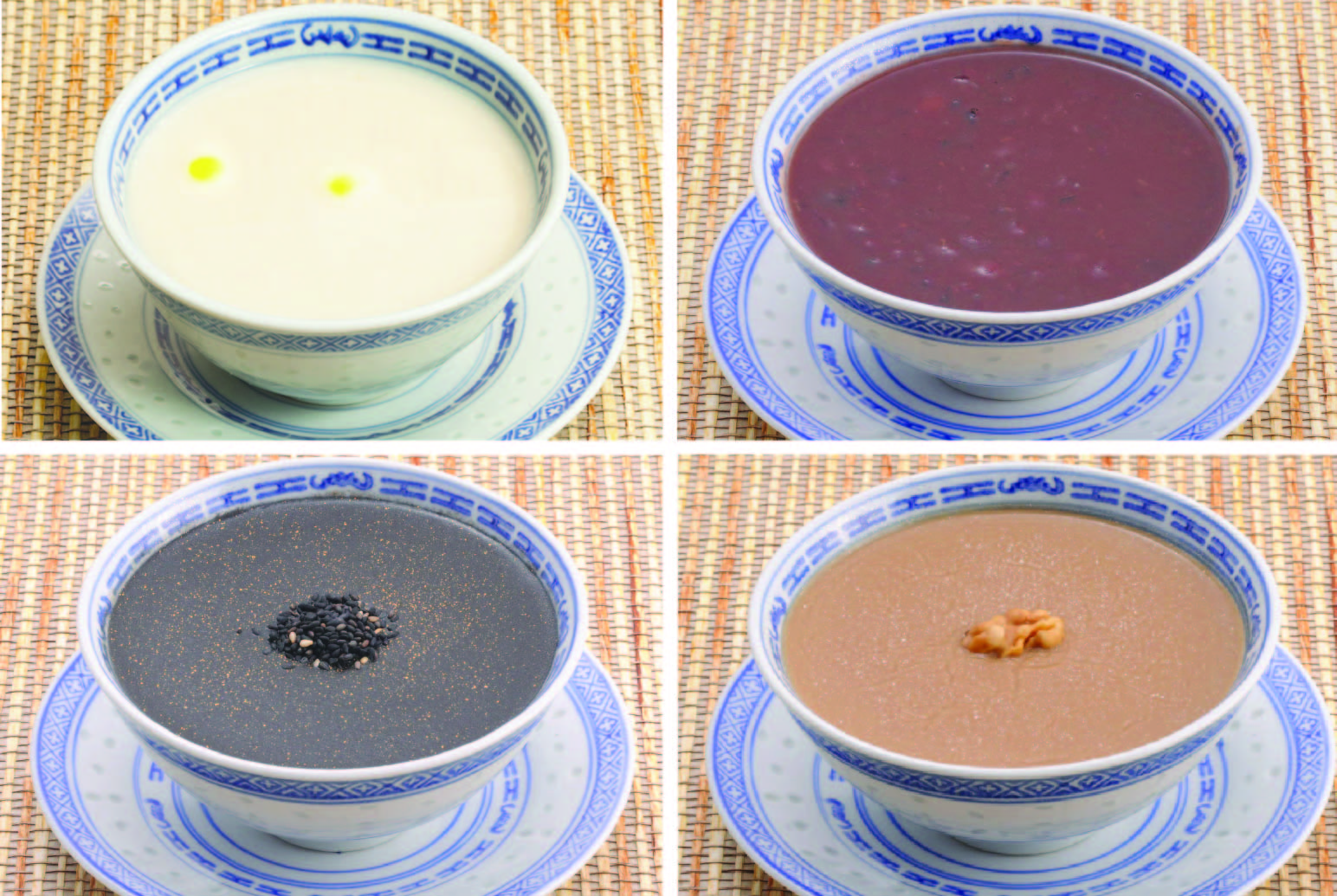 Chinese tongsui